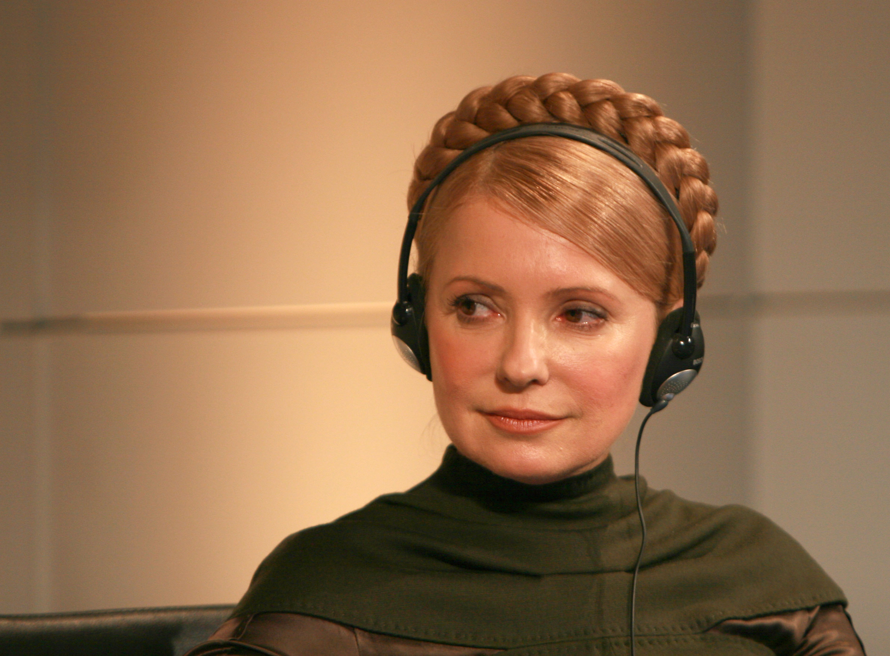 45th Munich Security Conference 2009: The Prime Minister of the Ukraine, Yulia V. Tymoschenko.